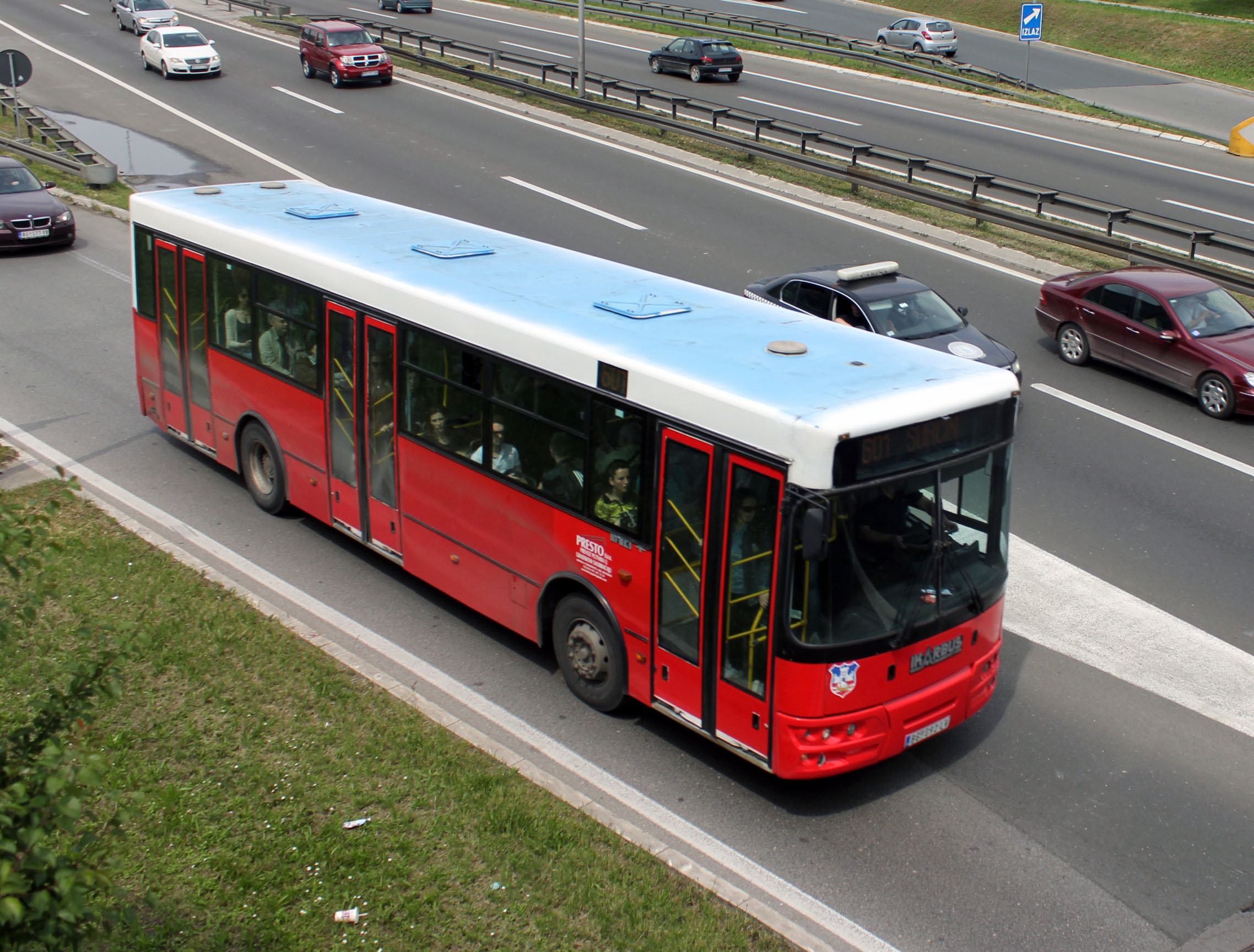 Ikarbus IK 103 public city bus of Presto private transport company from Belgrade on city bus line No. 601.